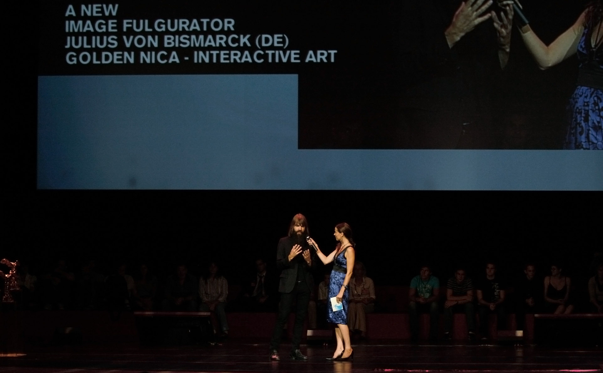 Julius von Bismarck, winner of the 'Golden Nica' in the category 'Interactive Art' of the Prix Ars Electronica 2008, with presenter Doris Schretzmayer (Brucknerhaus, Linz).